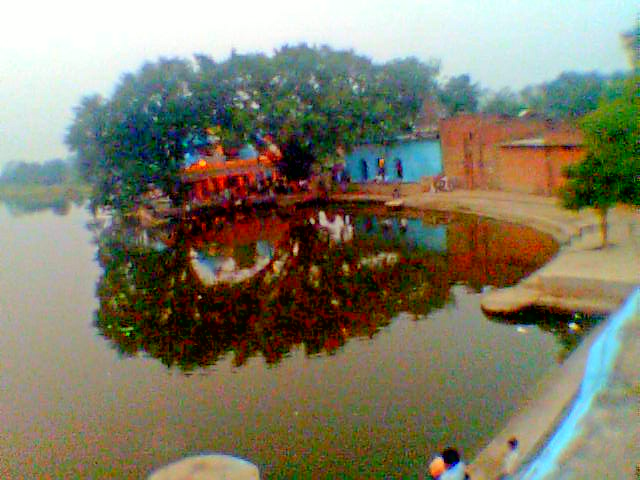 this is a big pond in Mangalpur near purani Bazar.. its speciality is that there are four ghats arround it and there is also four temples over each ghat.. so it is very special place and in every festival it is decorated with all temples.